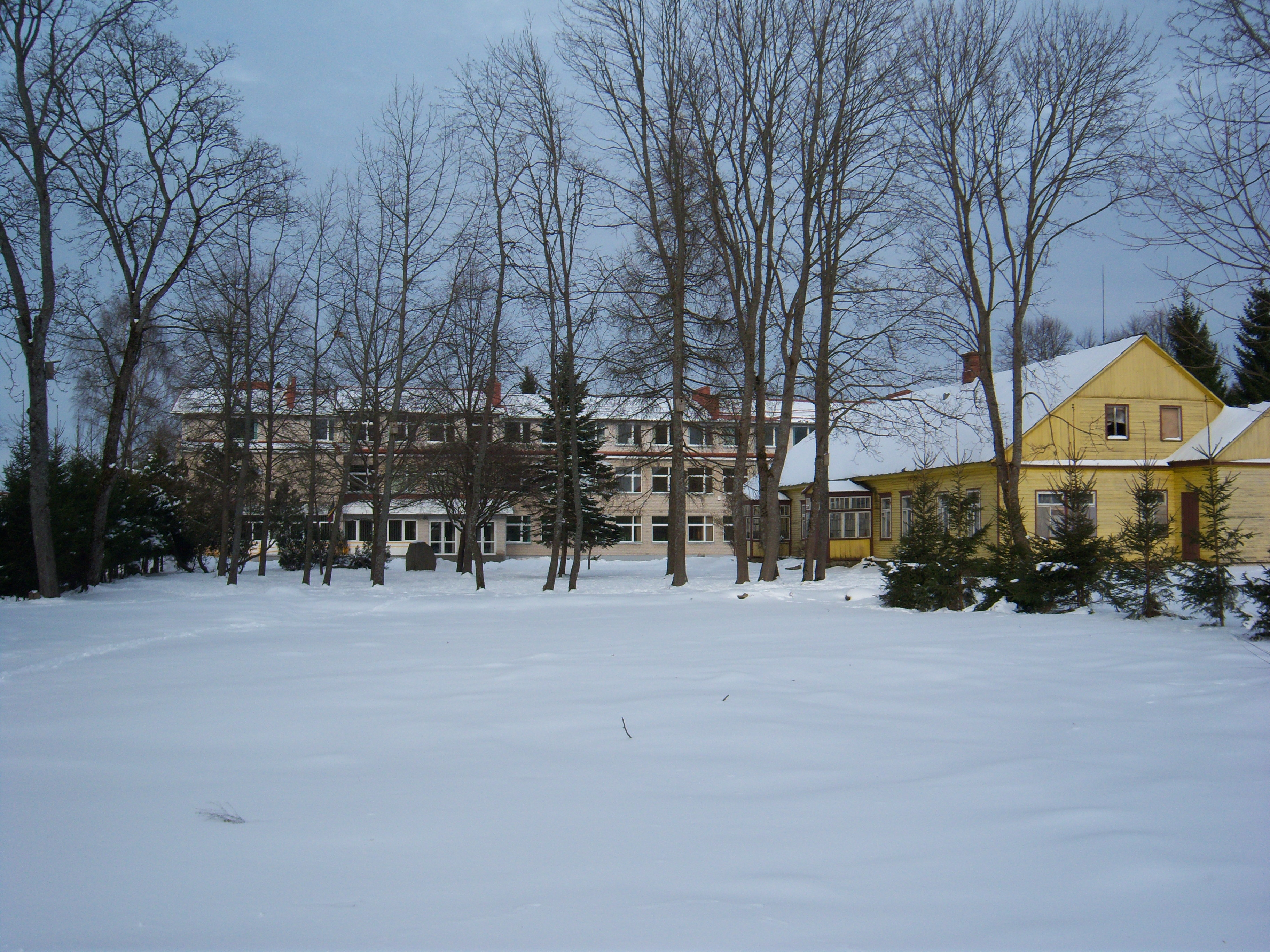 Zapyskis principal school, Kaunas district, Lithuania